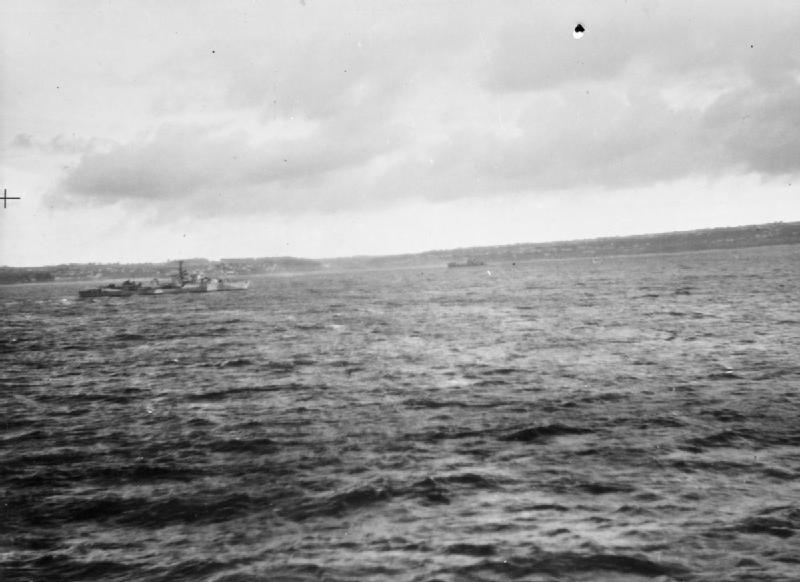 British Naval Patrol Off Brest Sinks Eight Enemy Ships in Night Action. 23 August 1944, on Board HMS Mauritius. in the Course of Two Brisk Engagements in Audierne Bay Between Brest and Lorient, in the Small Hours of the Morning of 23 August Hm Ships Under the Command of Captain W W Davis, Rn, in the Cruiser Mauritius, Pursued and Destroyed Eight Enemy Ships. the Destroyers HMS Urse and Hmcs Iroquois Were in Company With HMS Mauritius. HMCS IROQUOIS going in at first light to torpedo one of the enemy ships driven aground.